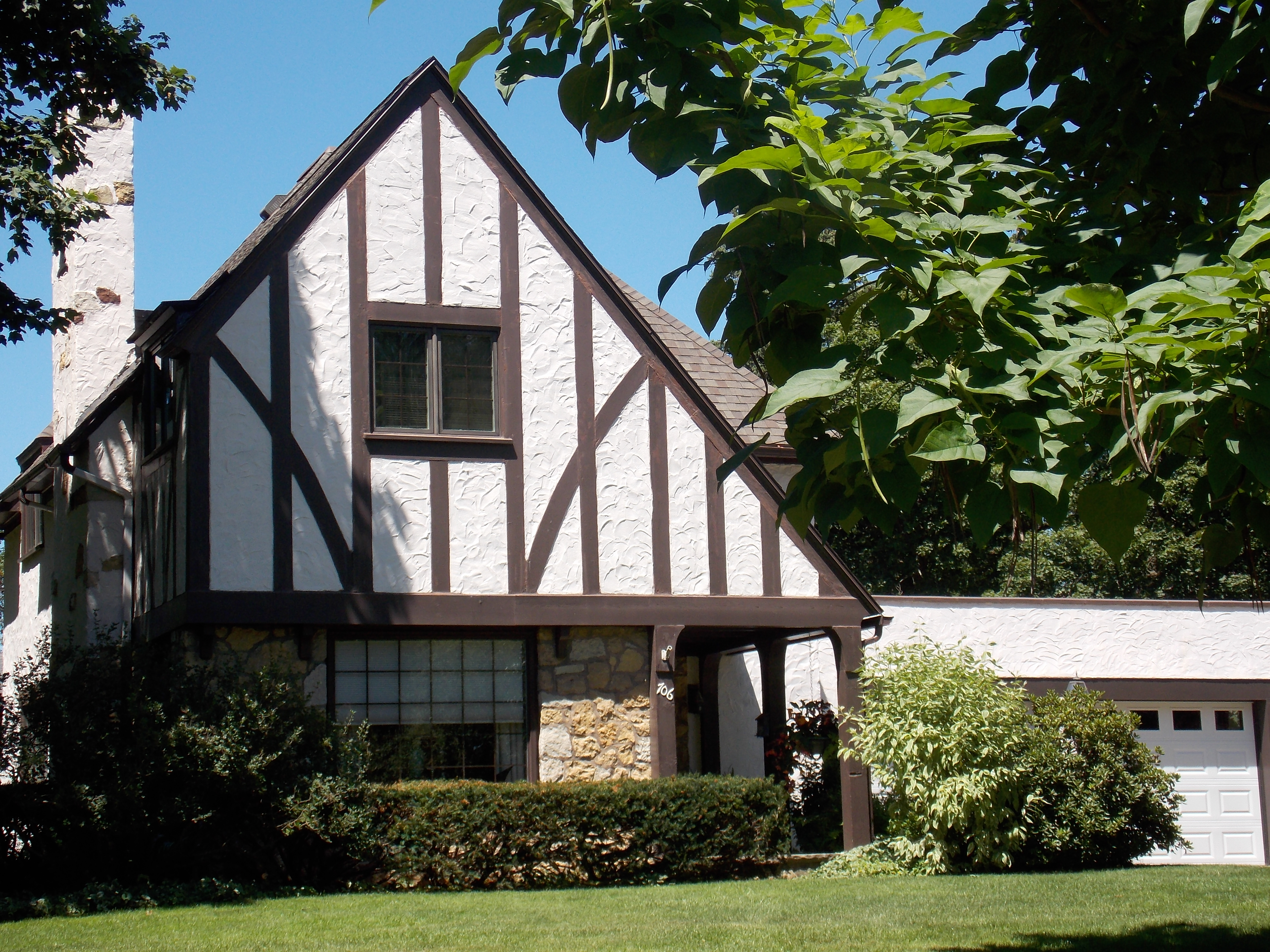 The house at 706 Terrace Drive, Clinton, Iowa is a contributing property in the Castle Terrace Historic District